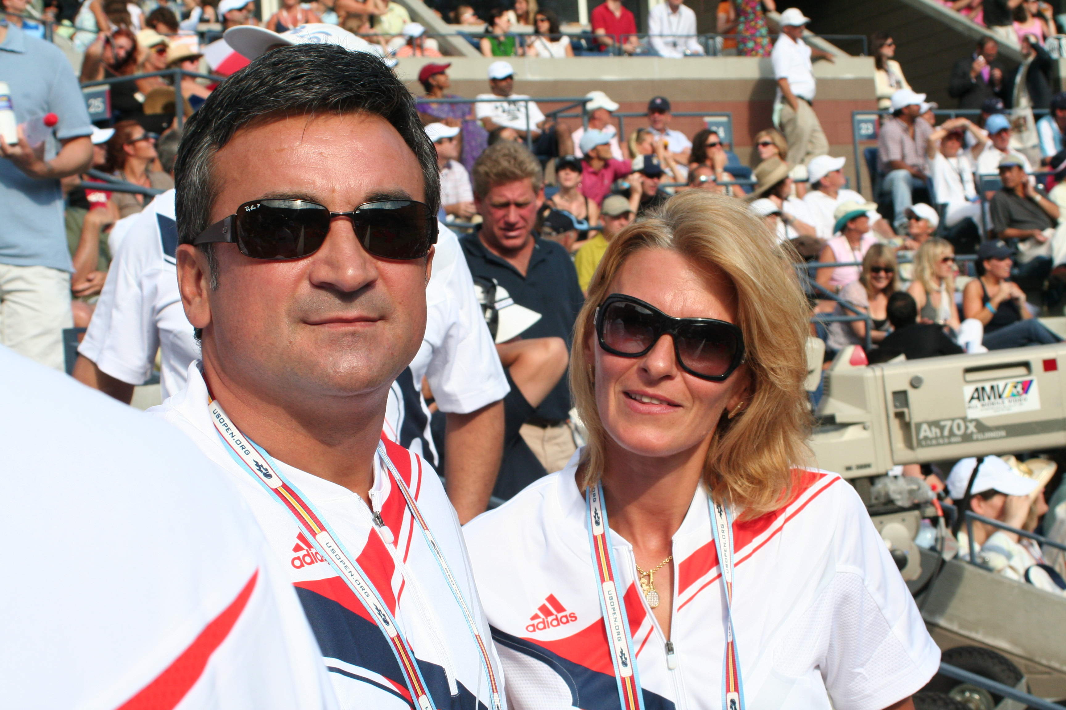 Srđan and Dijana at the 2007 US Open.